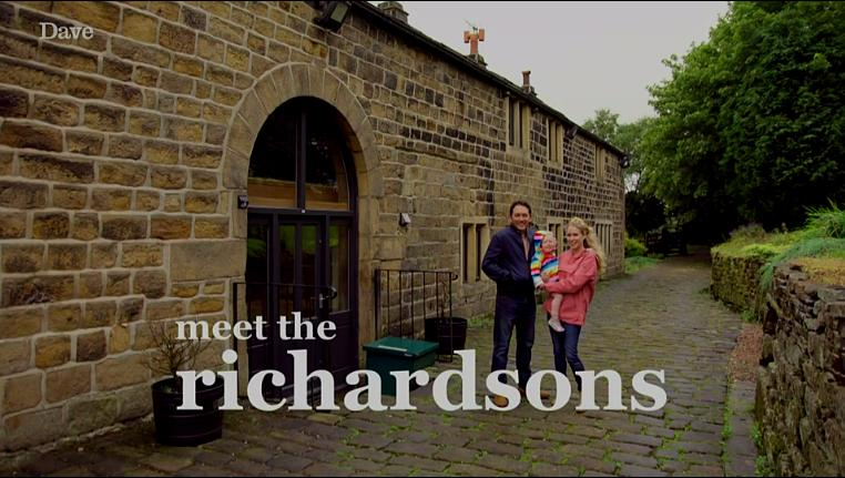 The opening credit scene from the TV show Meet The Richardsons